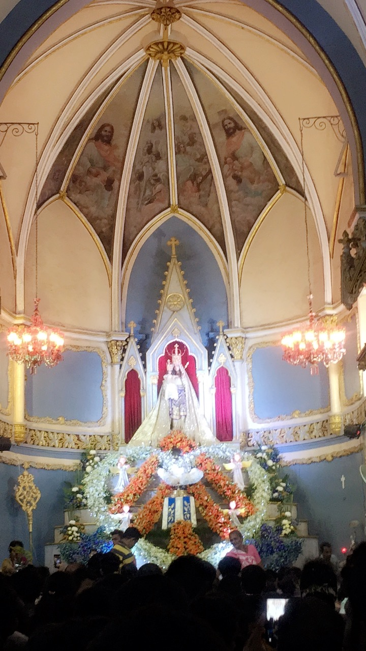 Amalgamation of feeling and belief